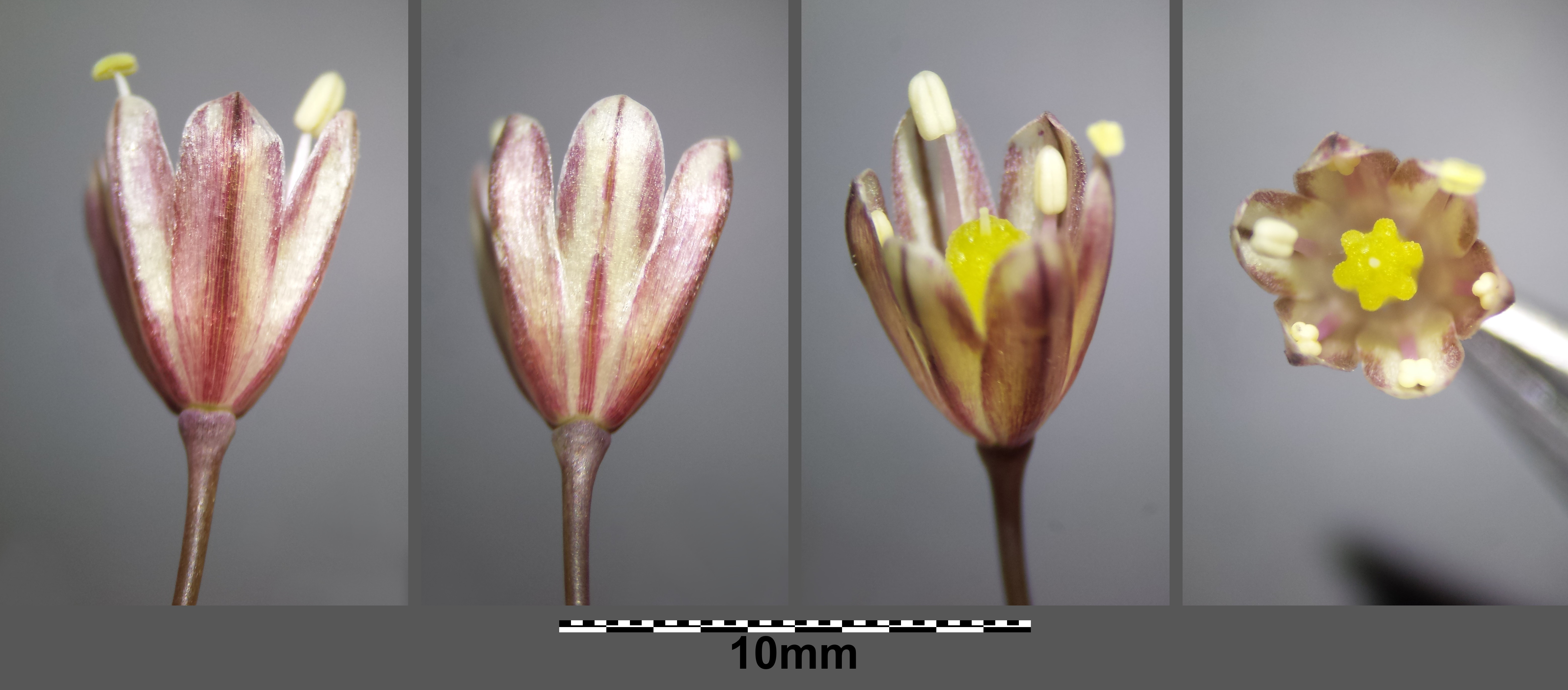 Flower Taxonym: Allium oleraceum ss Fischer et al. EfÖLS 2008 ISBN 978-3-85474-187-9 Location: Neue Donau, Vienna-Floridsdorf - ca. 160 m a.s.l. Habitat: dry meadows